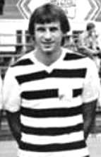 Factual corrections and alternative descriptions are encouraged separately from the original description. Additionally errors can be reported at this page to inform the Bundesarchiv. Original historic description: Gerhard Hoppe, FC Carl Zeiss Jena, 1982